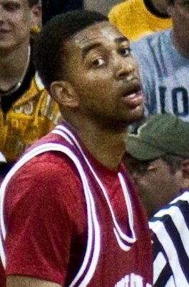 Indiana University basketball player Christian Watford in his freshman season.